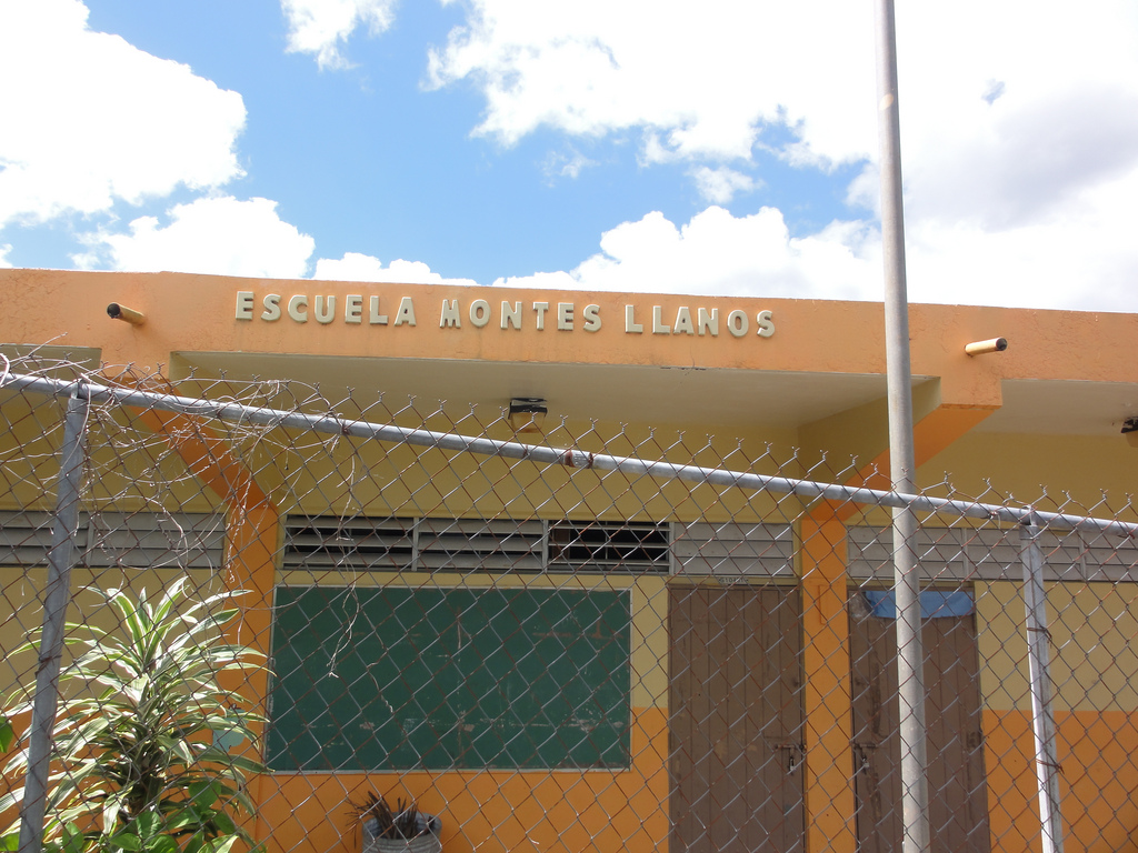 Escuela Montes Llanos (School) on PR-505 in Barrio Montes Llanos, Ponce, Puerto Rico